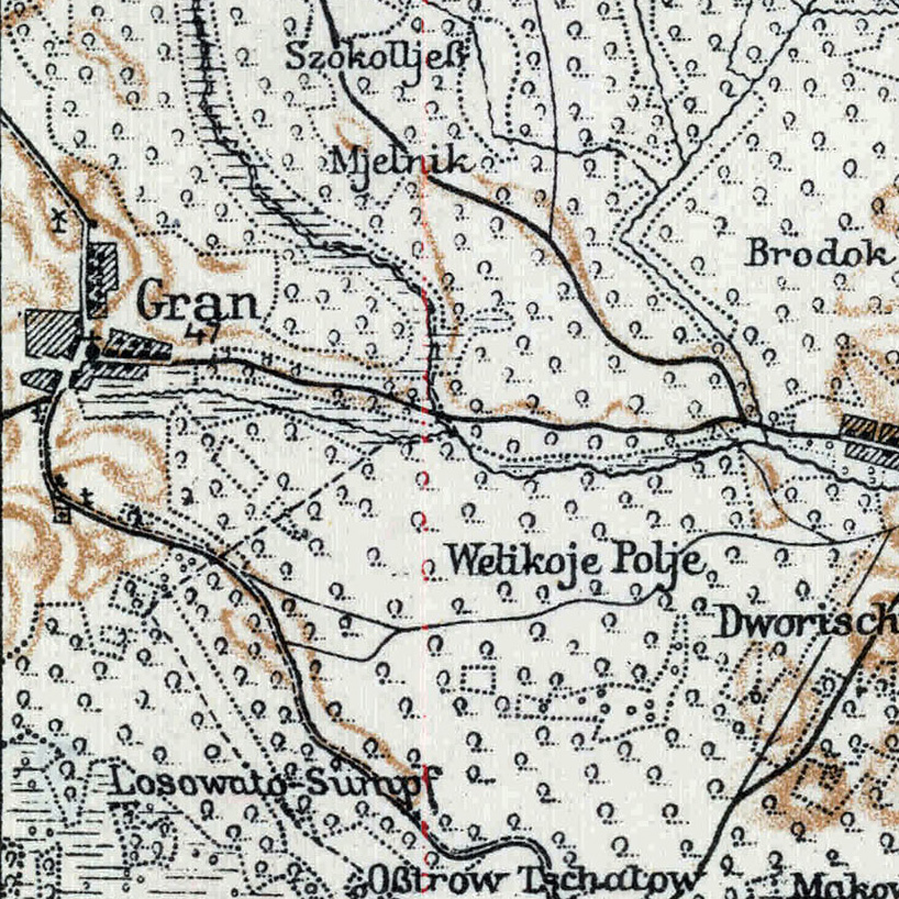 Hrani on the map "Karte des Westlichen Russlands", T 35, 1917. According to Digital Repository of Scientific Institutes and Kujawsko-Pomorska Digital Library the map is in the public domain.